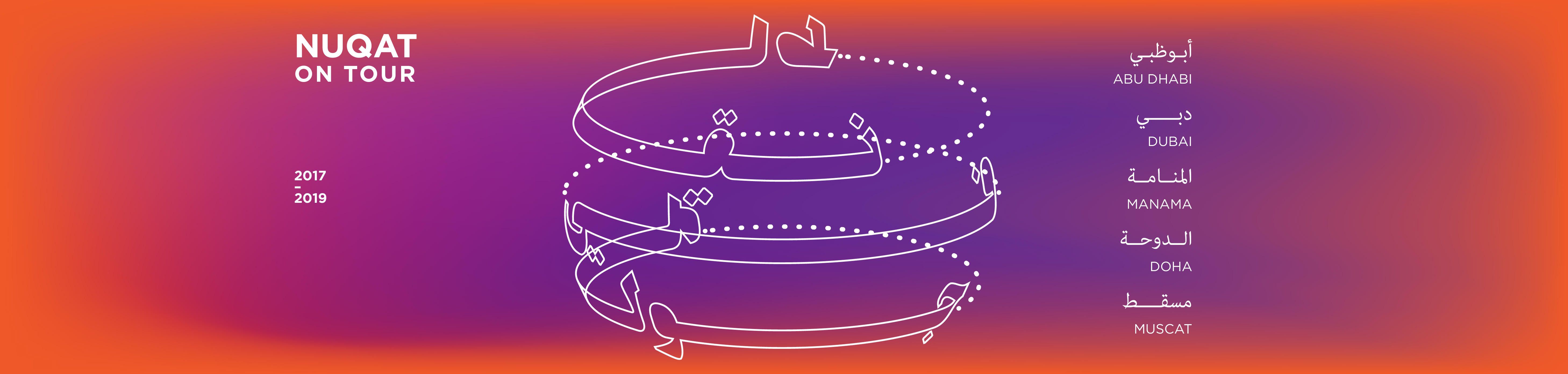 Nuqat on Tour